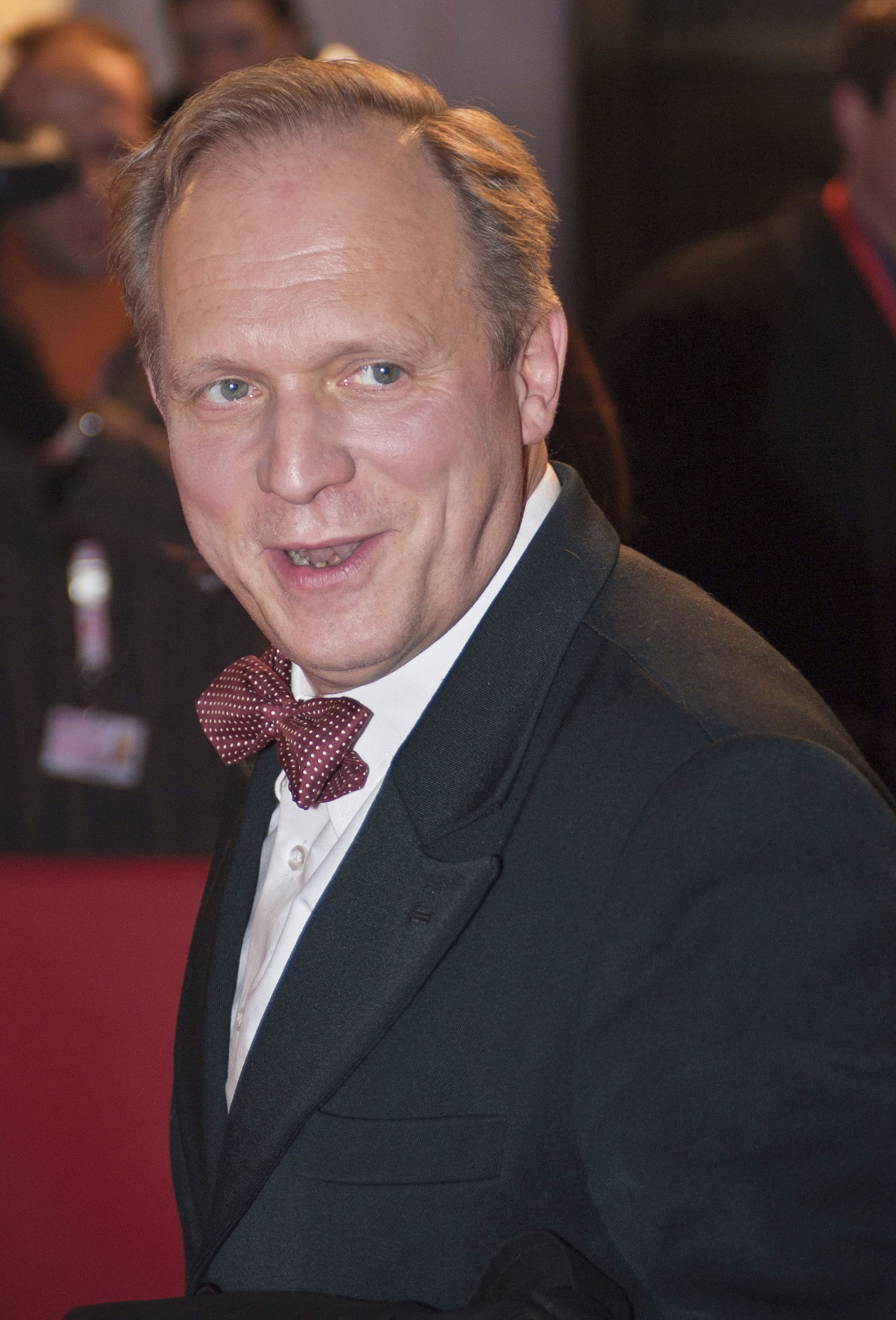 German actor Ulrich Tukur, Premiere of the movie "John Rabe" at the Berlin Friedrichstadtpalast